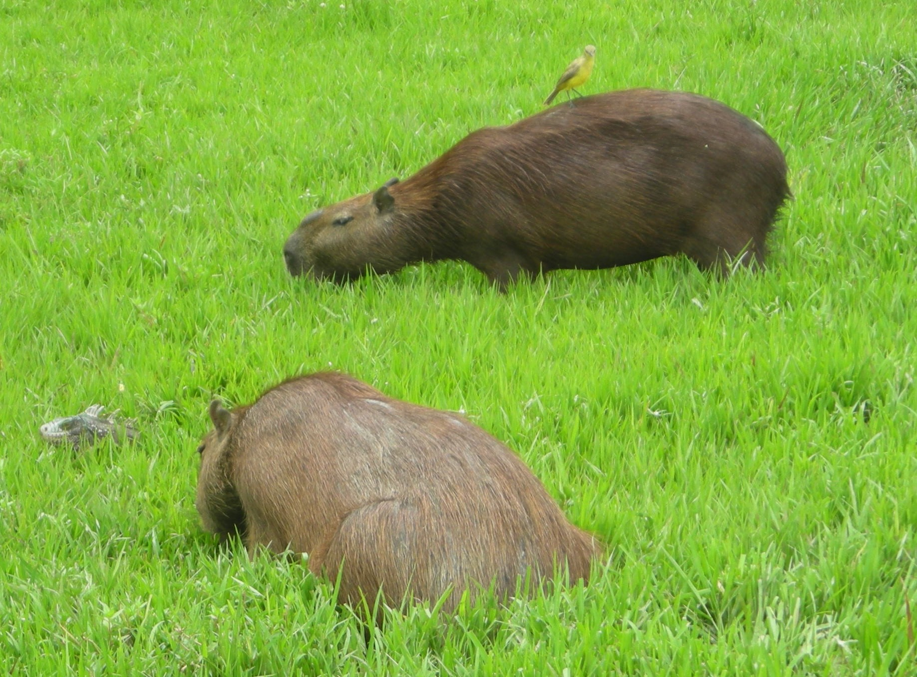 Capybara with Cattle Tyrant (bird) in a cleaning symbiosis.